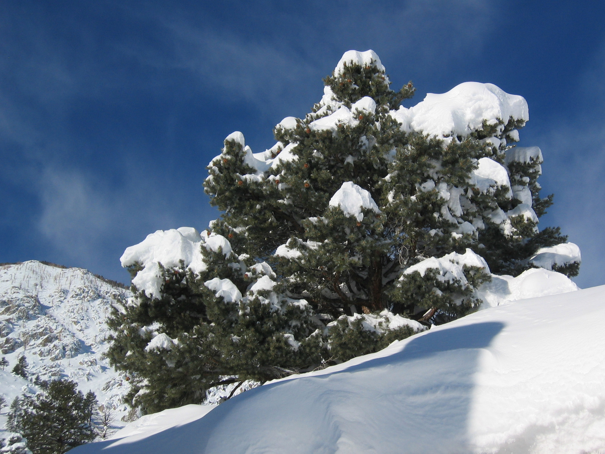 Snow-covered Single-leaf Pinyon Pinus monophylla at 2,120 m (6,960 ft) below Wheeler Crest, Owens Valley.